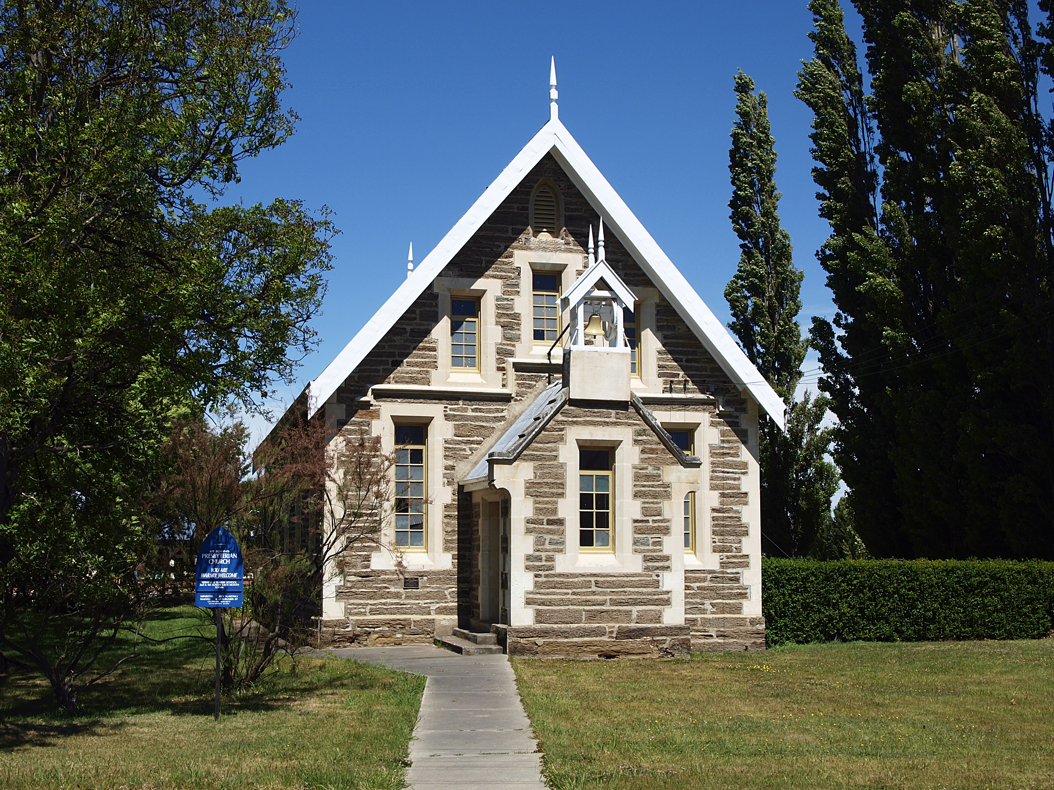 St John's Presbyterian Church in Middlemarch, built 1895.